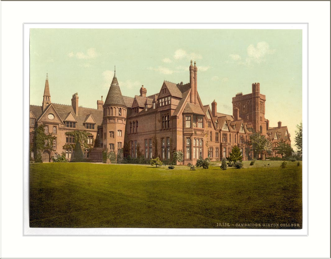 Girton College Cambridge England